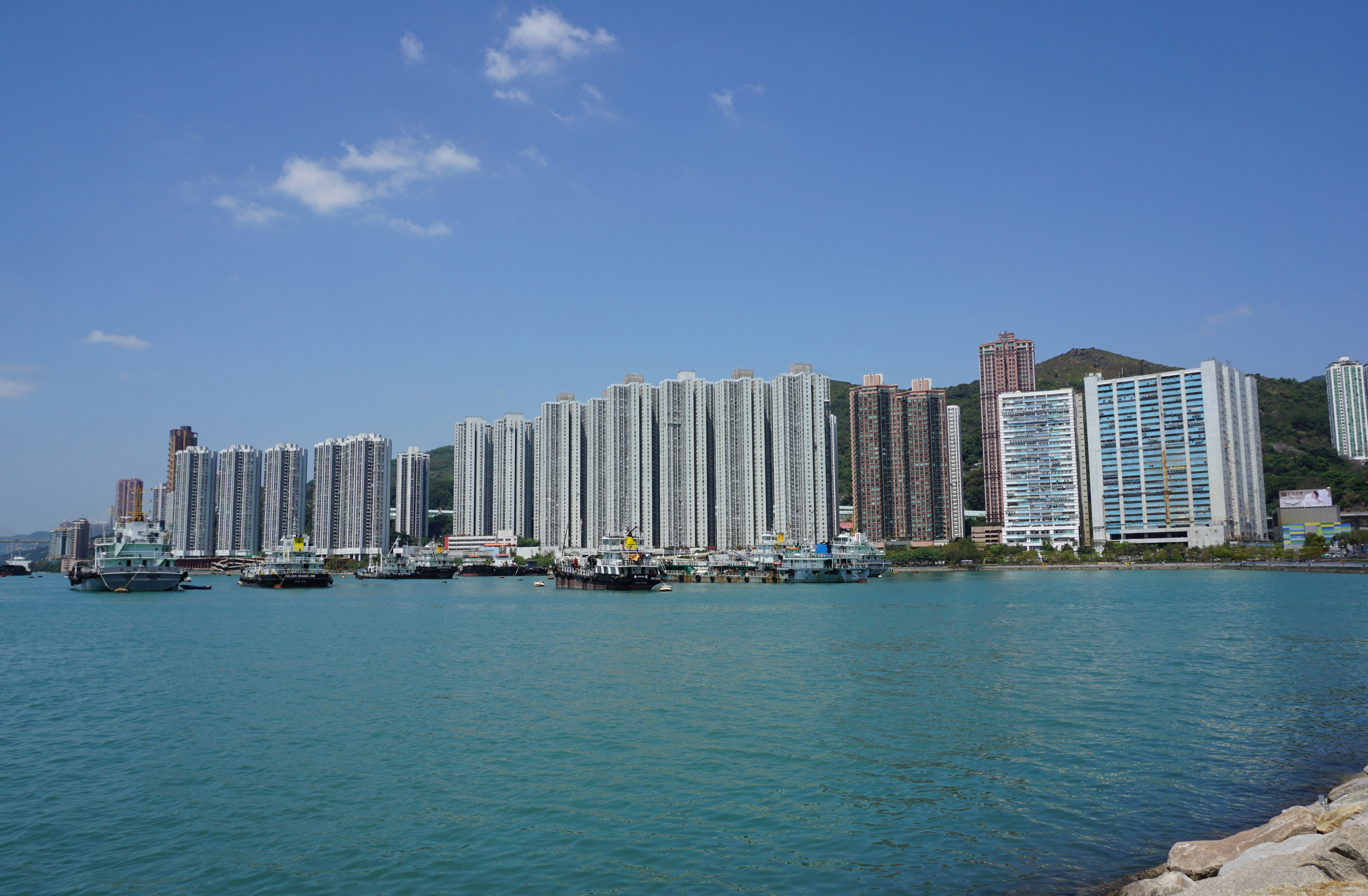 Tsuen Wan West in Tsuen Wan, Hong Kong.